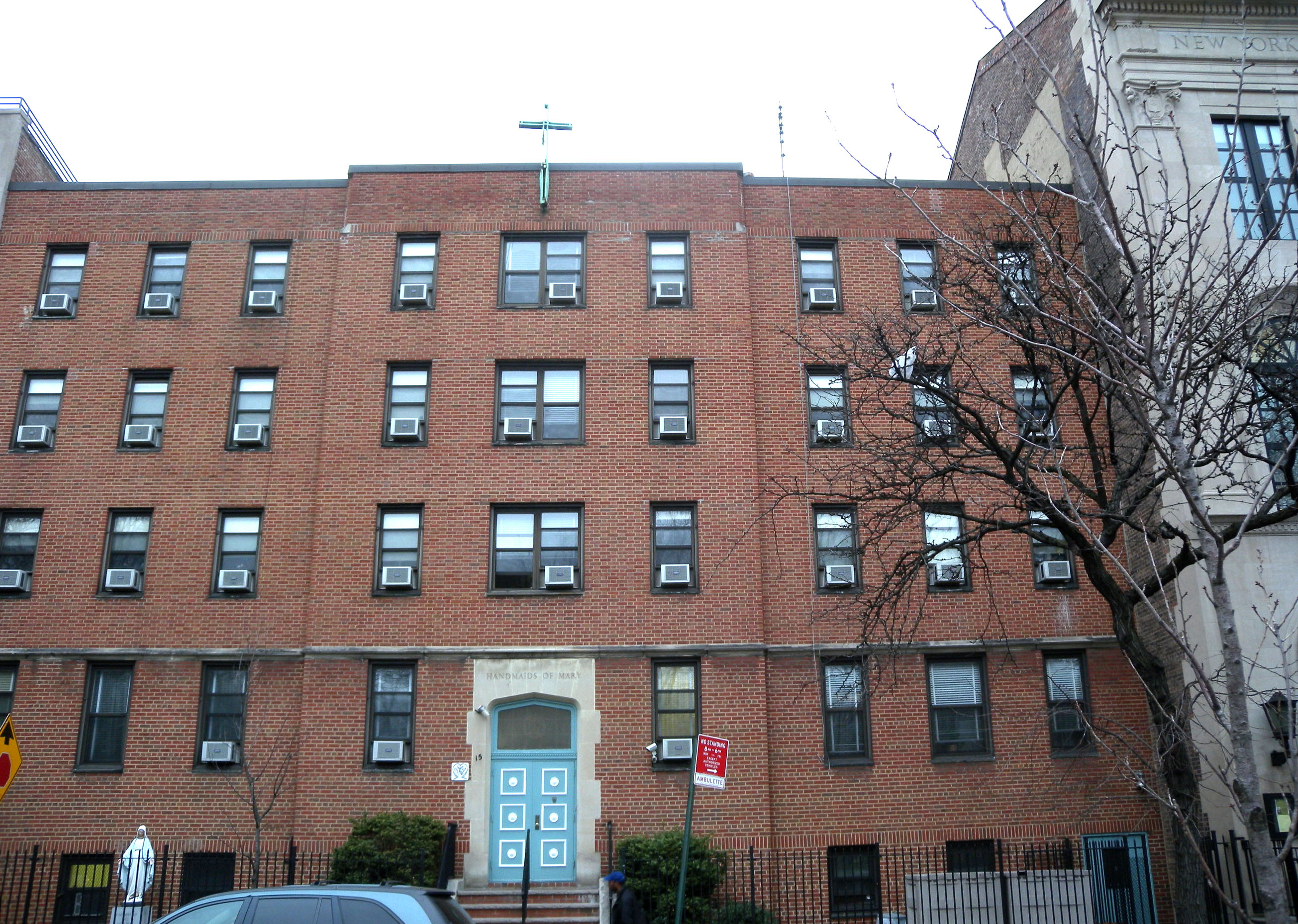 Looking north at Franciscan Handmaids of Mary on a cloudy late afternoon.